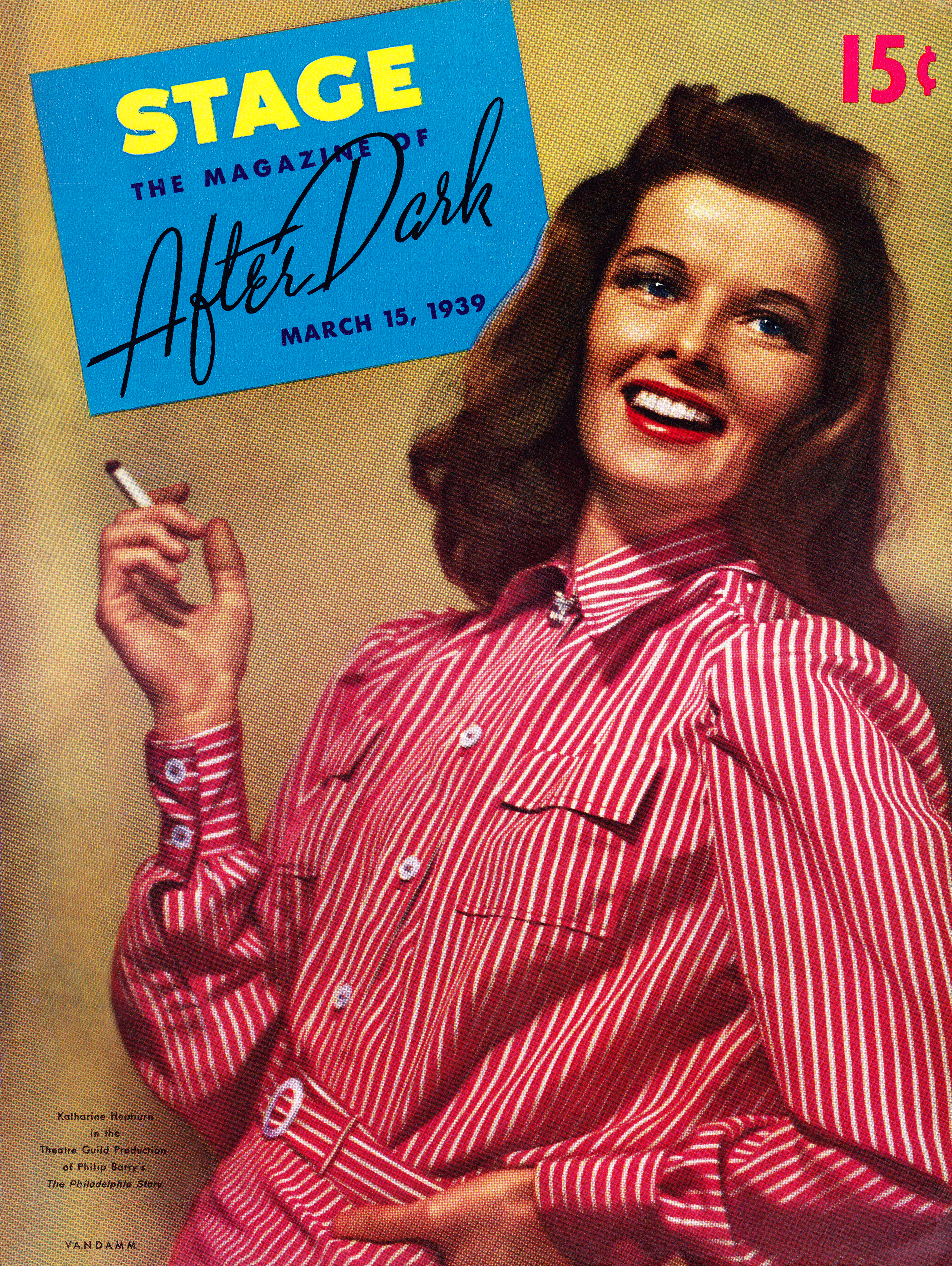 Front cover of Stage featuring a photograph of Katharine Hepburn as Tracy Lord in the Theatre Guild production The Philadelphia Story